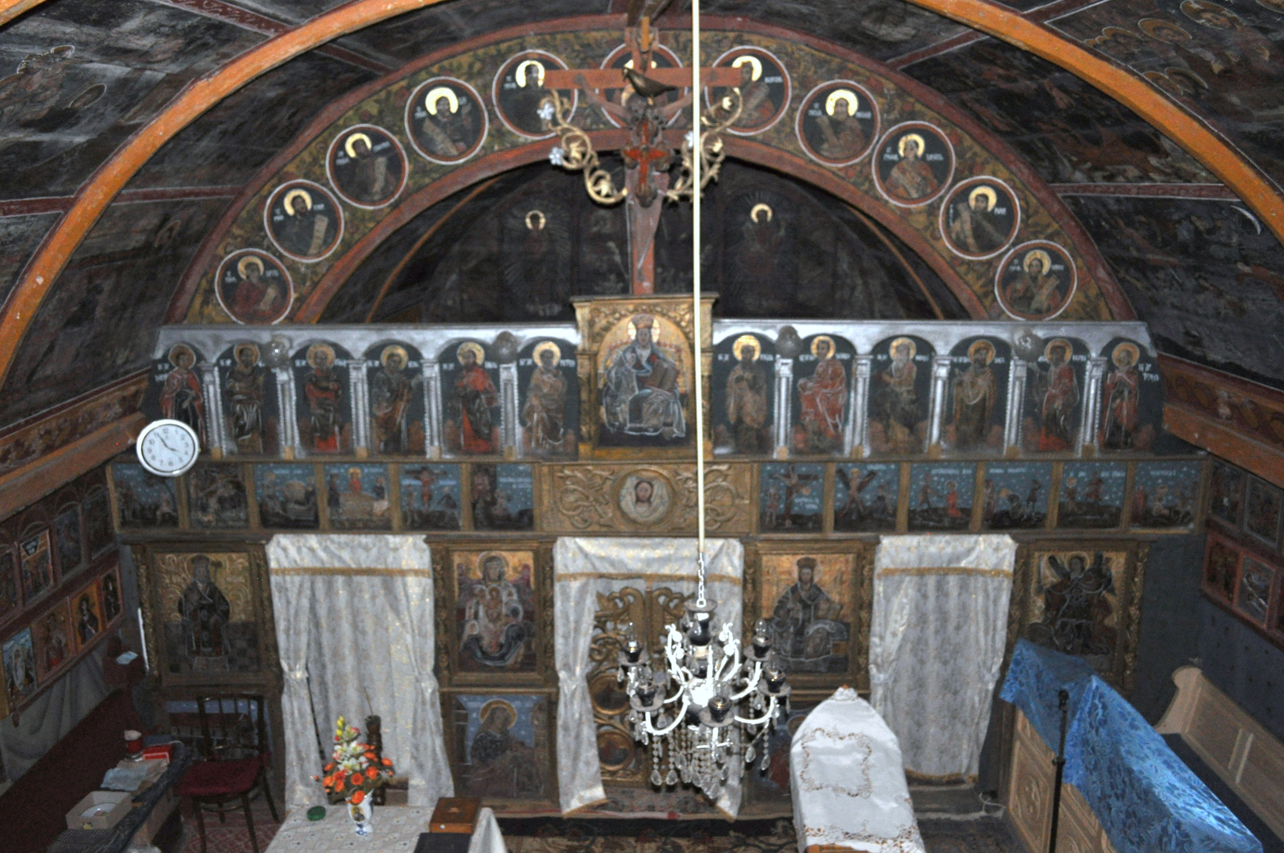 Wooden church in Năsal, Cluj countyRomână: Biserica de lemn din Năsal, județul Cluj